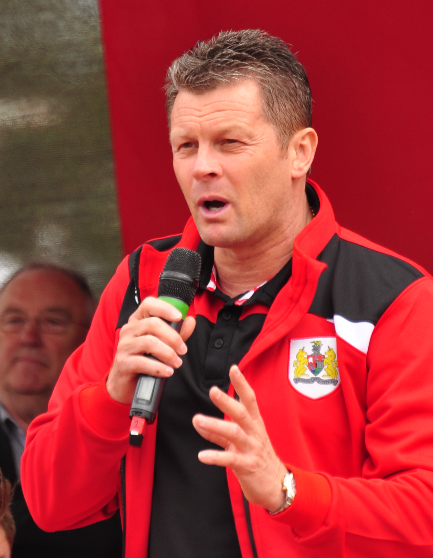 Steve Cotterill speaking at the Bristol City victory parade in May 2015.